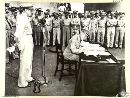 AWM Description: Tokyo Bay -- Surrender of Japanese aboard USS Missouri. Col. Lawrence Moore Cosgrave representing Canada, signs the instrument of surrender.